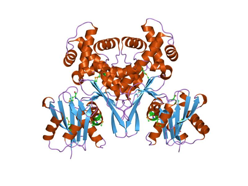 Cartoon representation of the molecular structure of protein registered with 1q18 code.